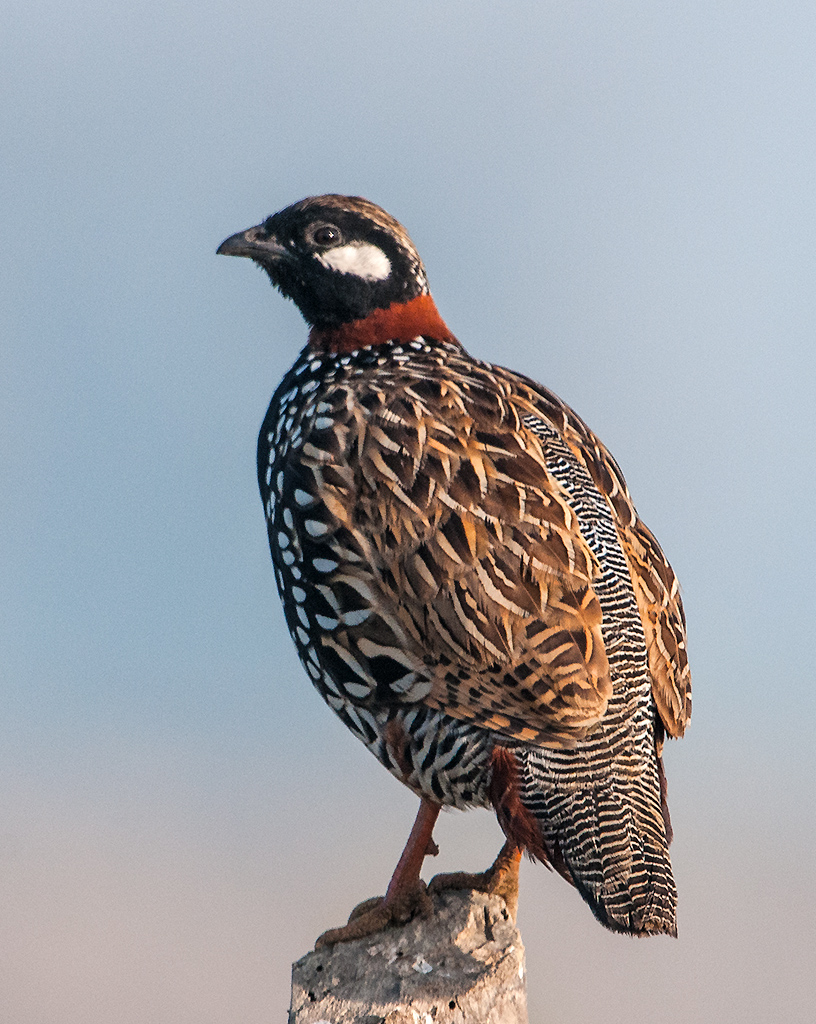 Black Partridge (Francolinus francolinus) is the State Bird of the Indian State of Haryana. It is a member of the Pheasant family and is, like a typical member of the Phasianidae pretty colourful with black and brown plumage with some white also. The a resident of Northen India. The interesting three syllable call, heard during mornings and evenings is interpreted differently by different people. Some say the call means "Subhan teri Kudrat" other say it mens "Paan beedi cigarette"